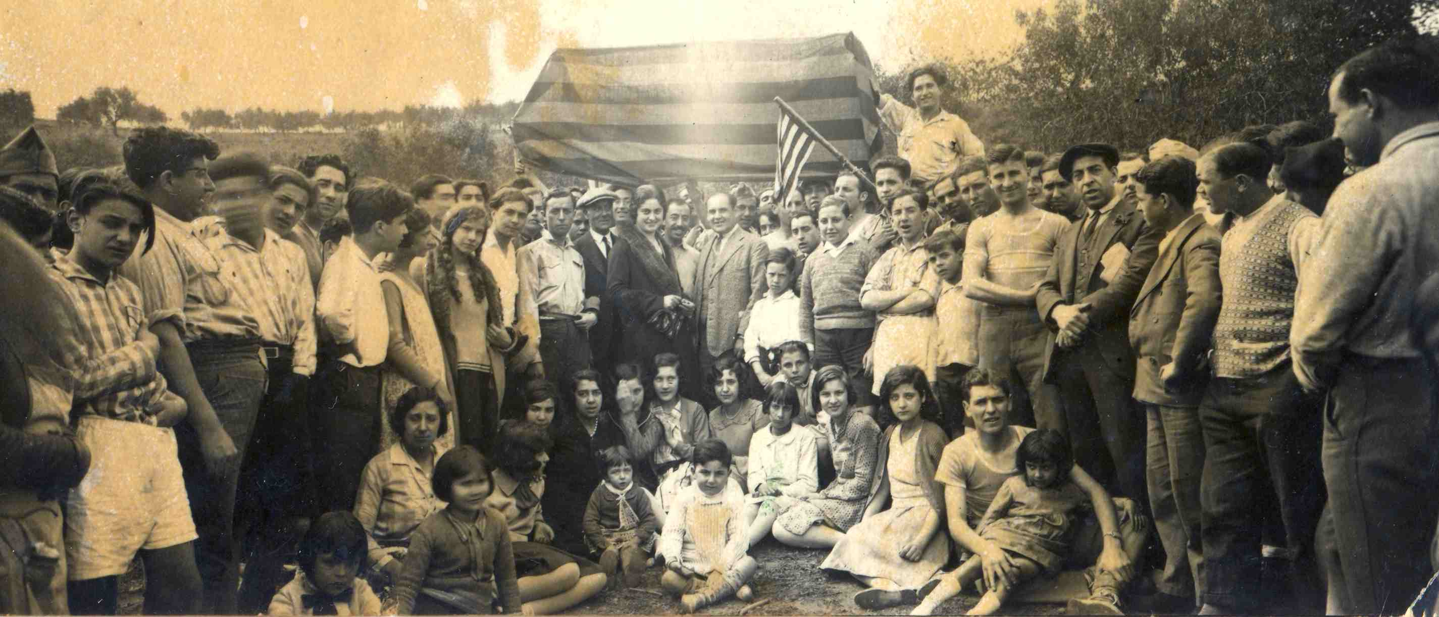 country party for the Marcel·lí Perellós's liberation. Catalonia, 1930